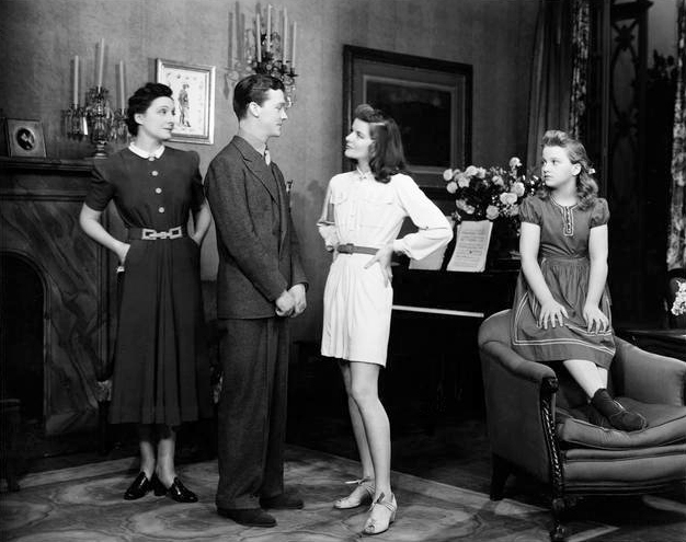 Photograph of Vera Allen, Dan Tobin, Katharine Hepburn and Lenore Lonergan in the 1939 stage production The Philadelphia StoryFeature story is titled "Philadelphia Story on Clothes" (no author credit)Photo caption reads as follows:She does well by a play-suit of oyster-beige, with two colossal pockets and a leather belt.